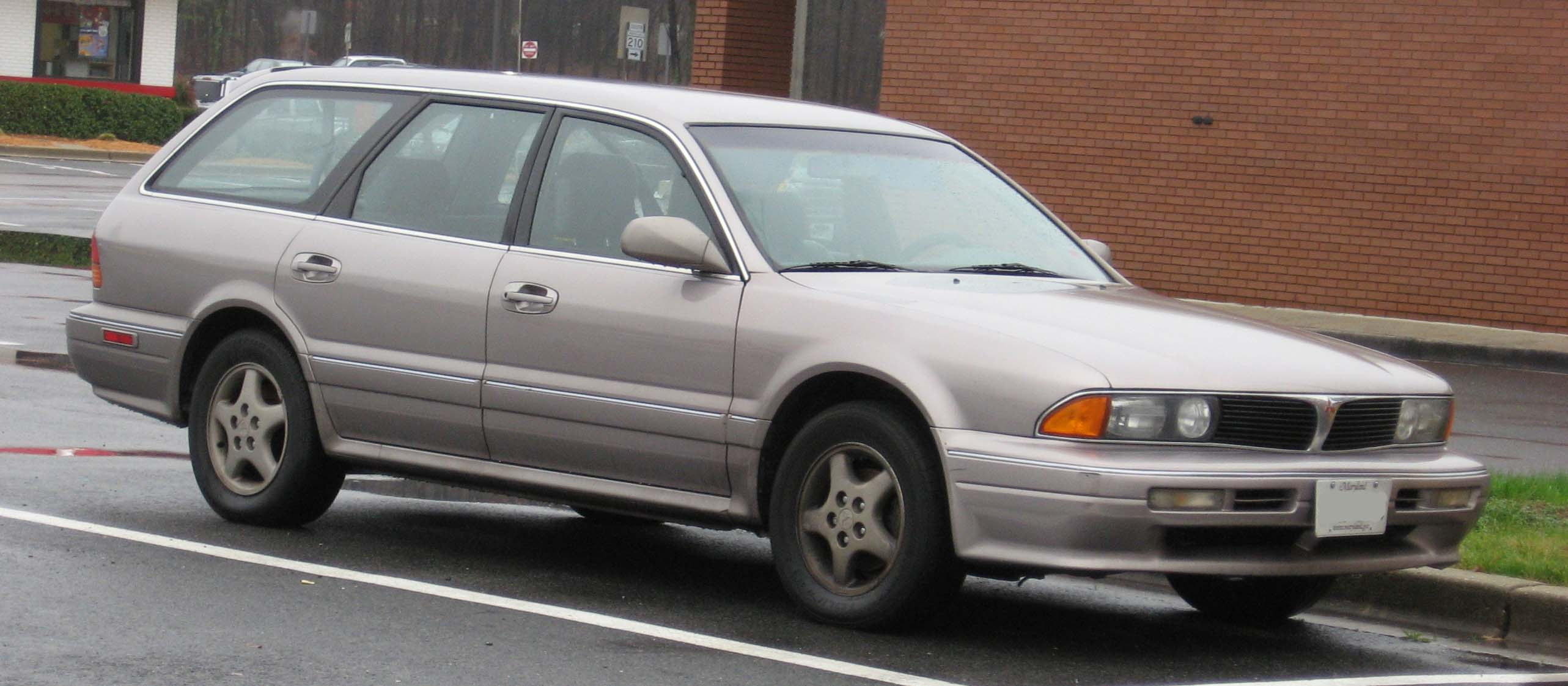 1993-1995 Mitsubishi Diamante LS wagon photographed in USA.